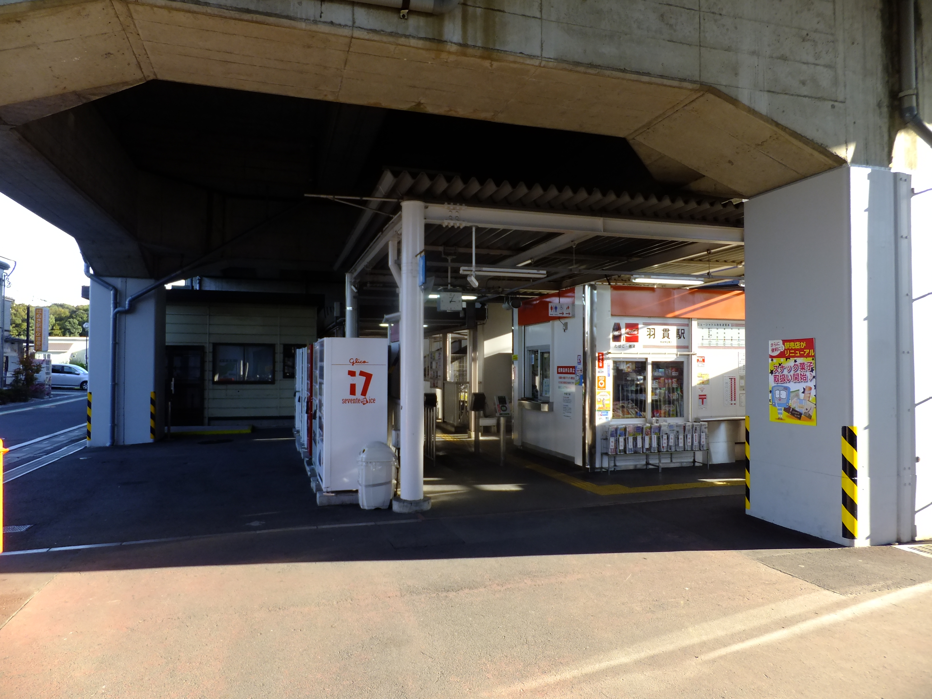 Hanuki Station on the New Shuttle Line, in Ina, Saitama, Japan